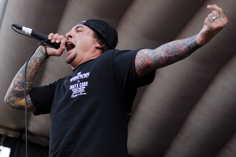 " and link the text to .